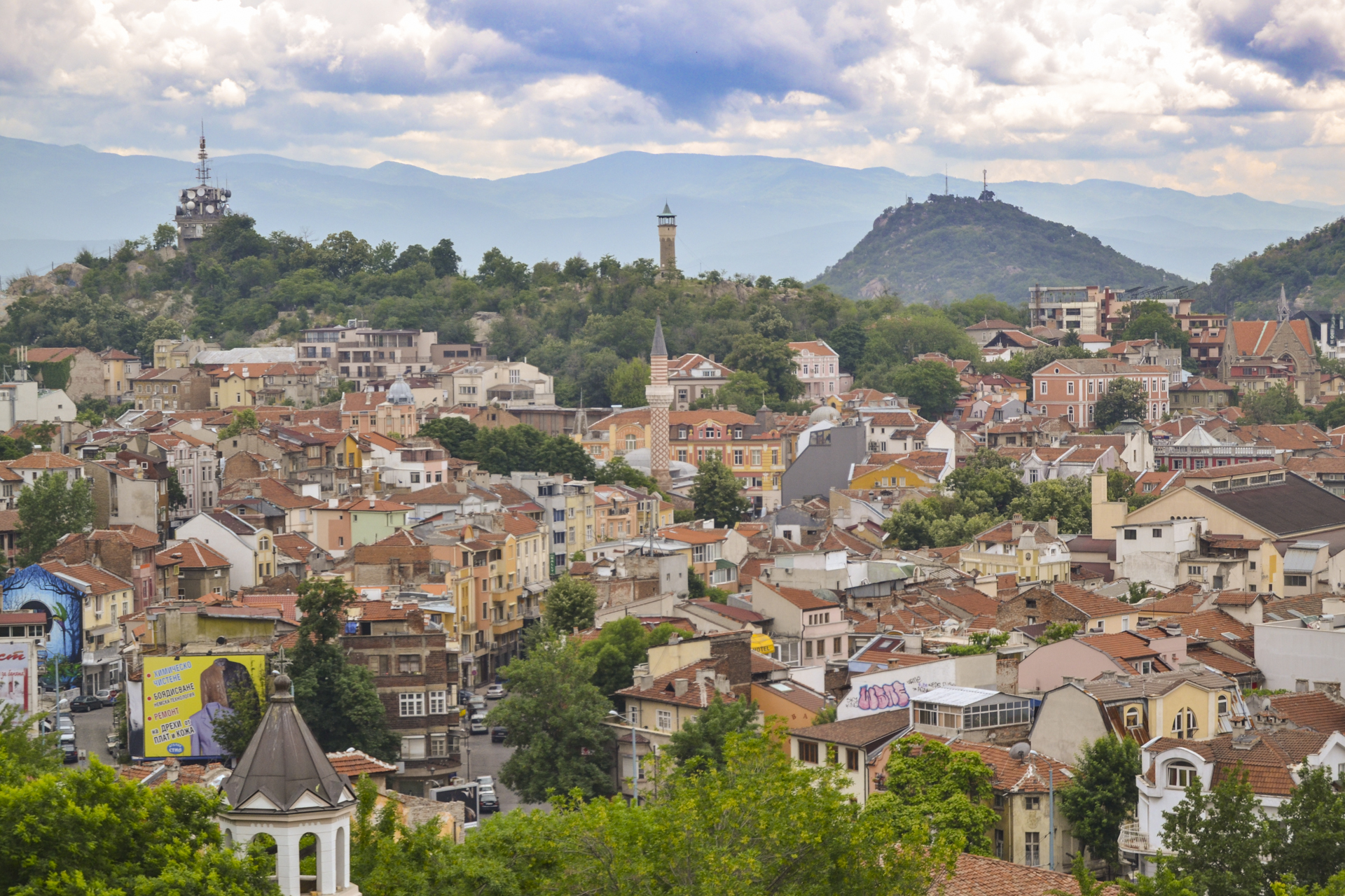 View of Plovdiv's hills